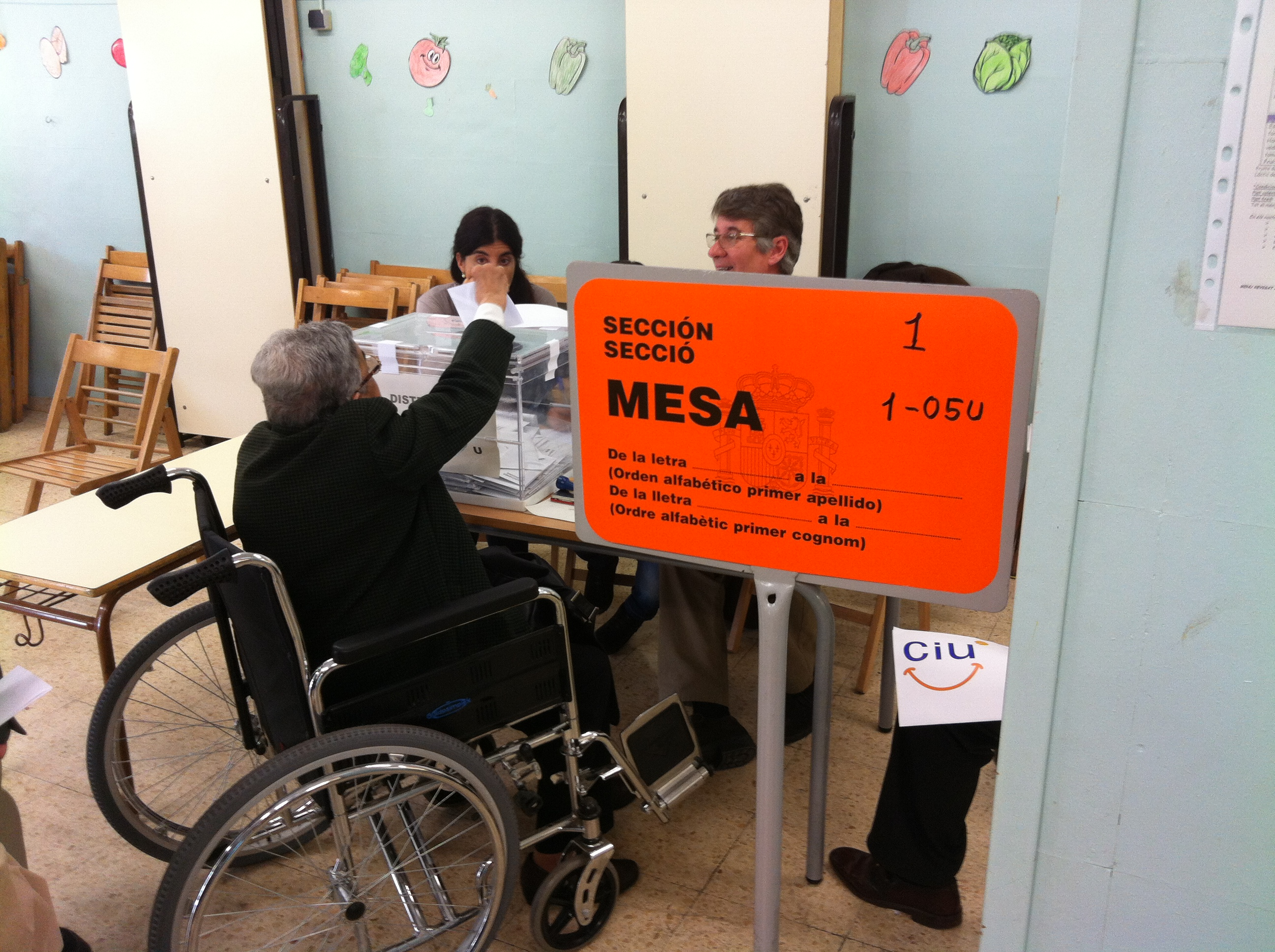 European Parliament election, 2014 (Sabadell, Catalonia)